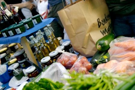 Farmers market in Oslo, Norway